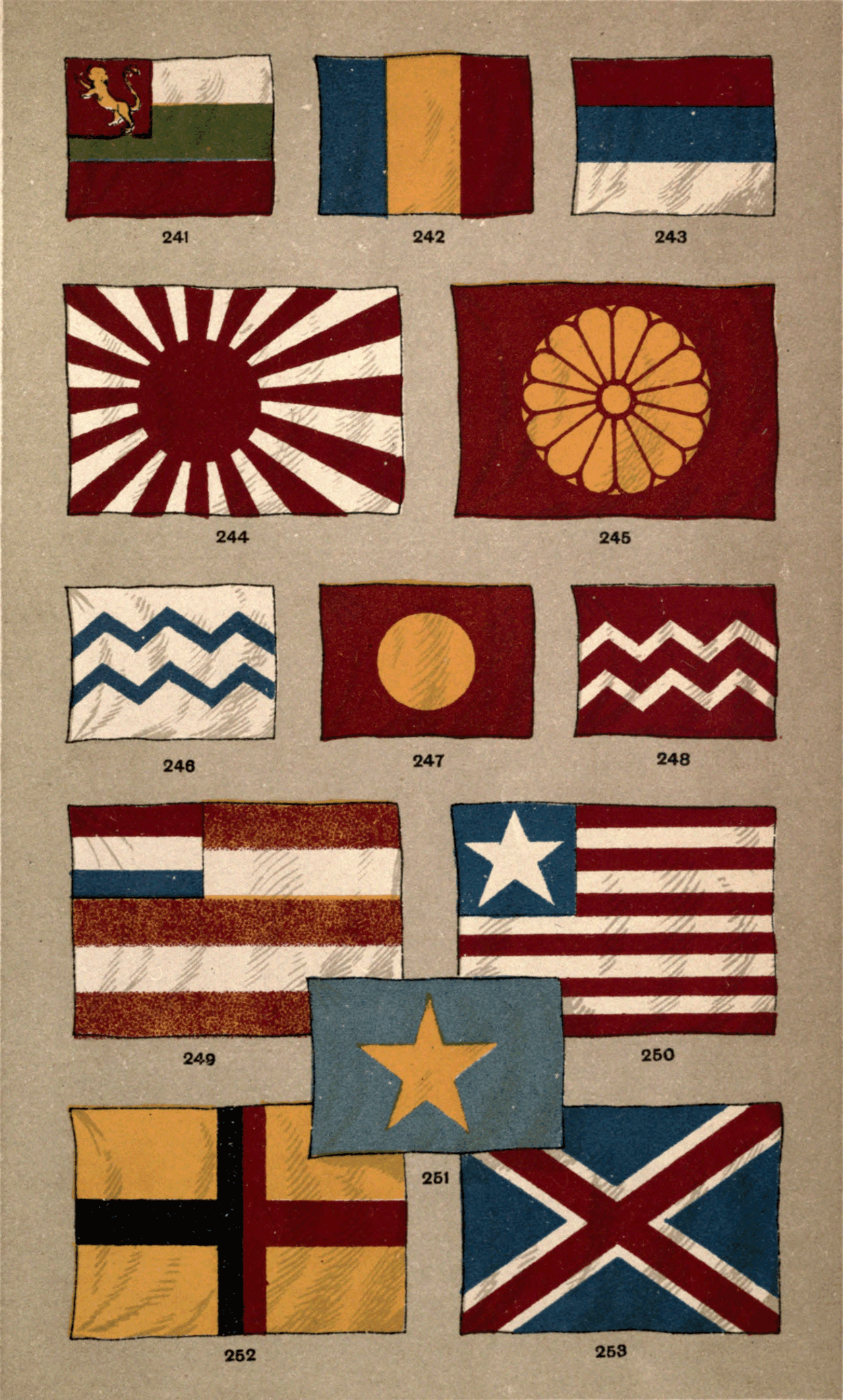 Plate 22. 241 Bulgaria. 242 Roumania. 243 Servia. 244 Japanese Ensign. 245 Japanese Imperial Standard. 246 Japanese Transport Flag. 247 Chinese Merchant Flag. 248 Japanese Guard Flag. 249 Orange Free State. 250 Liberia. 251 Congo State. 252 Rajah of Sarawak. 253 South African Republic.